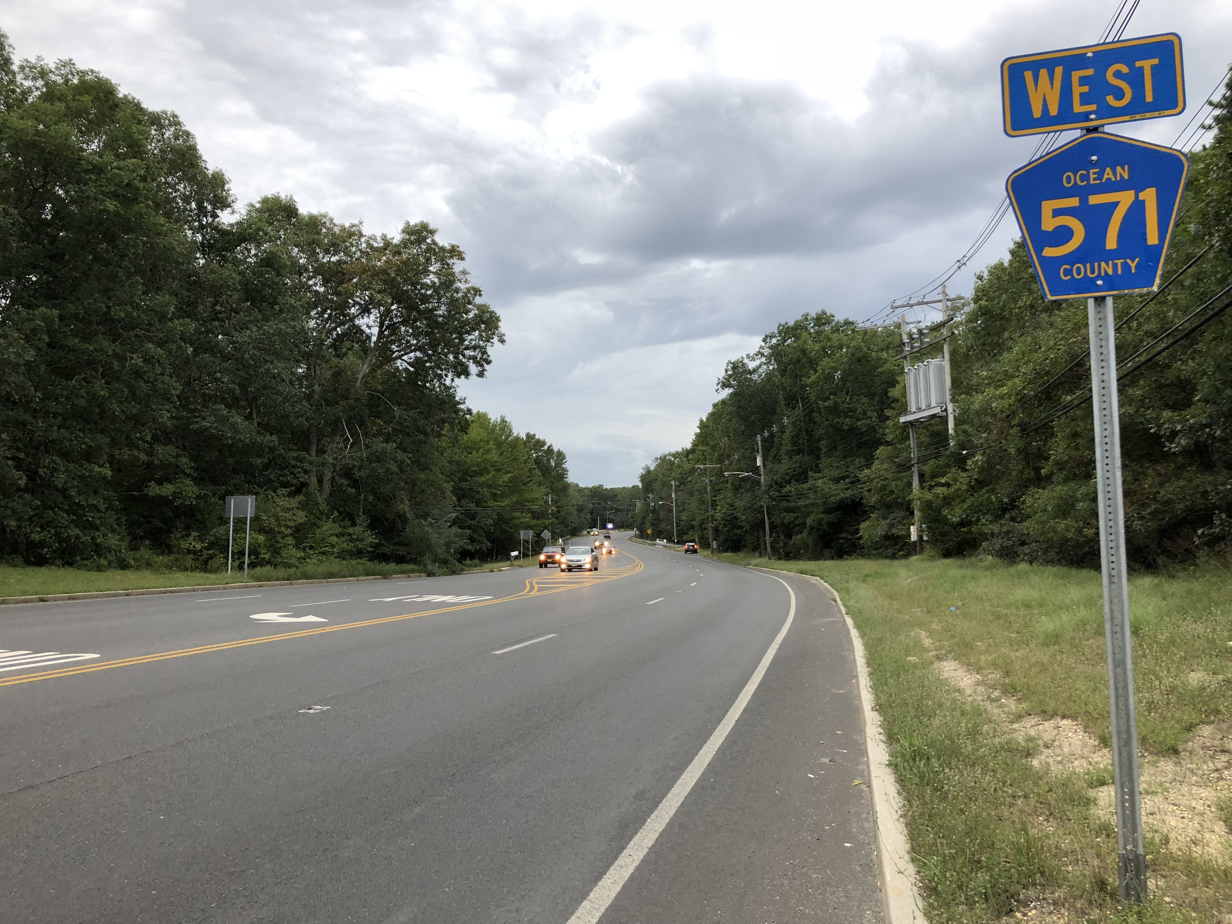 View west along Ocean County Route 571 (Ridgeway Road) just west of Ocean County Route 527 (Whitesville Road) in Toms River Township, Ocean County, New Jersey